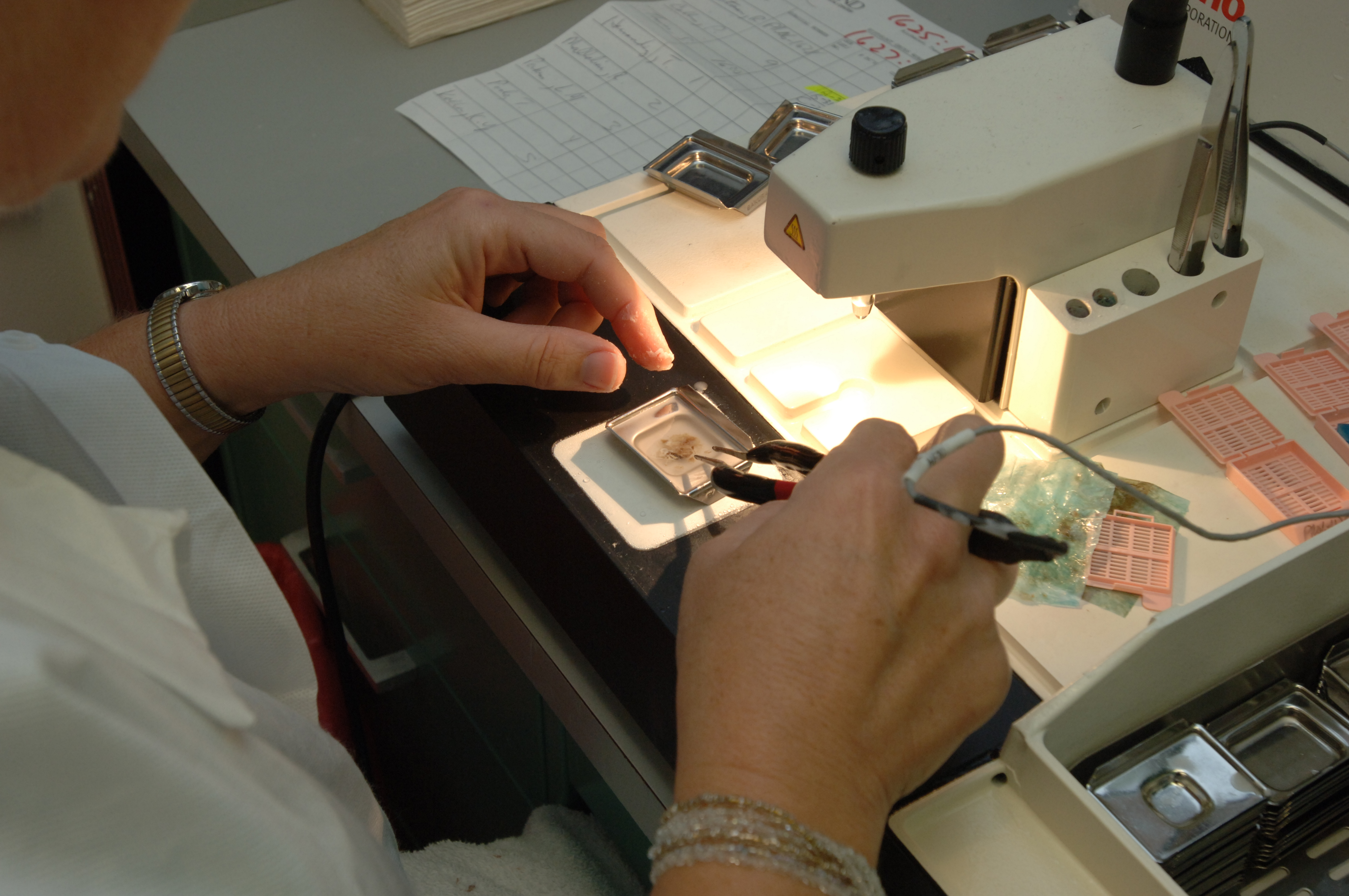 At the embedding station, paraffin-impregnated tissue is held at the bottom of a metal mold, and more molten paraffin is poured over it to fill the mold. The mold sits on a cold plate, which "freezes" the tissue to the bottom of the mold.